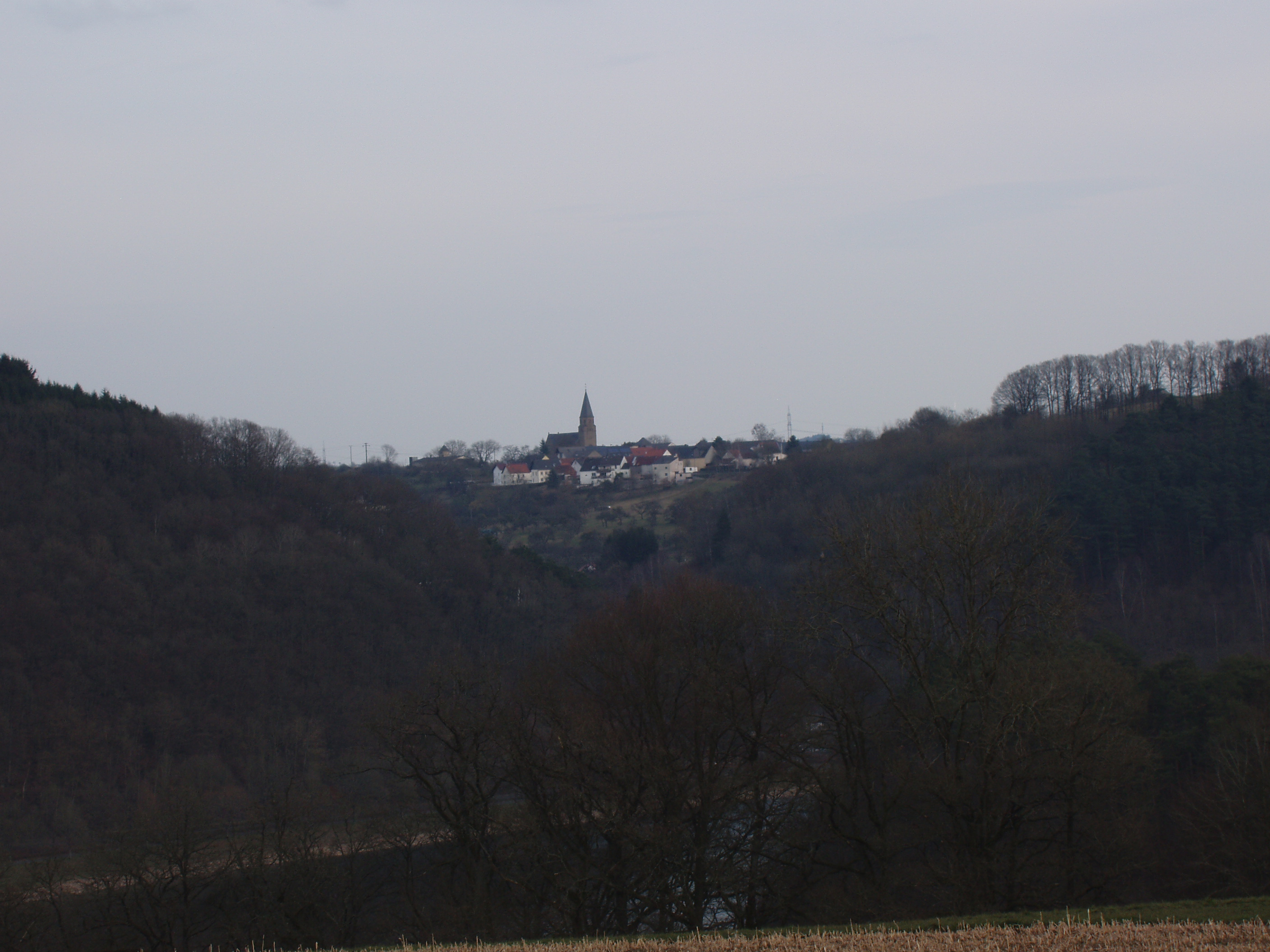 View at Biersdorf am See from Ferienstrasse